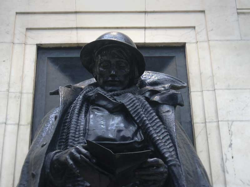 Great Western Railway War Memorial, Charles Sargeant Jagger, 1922